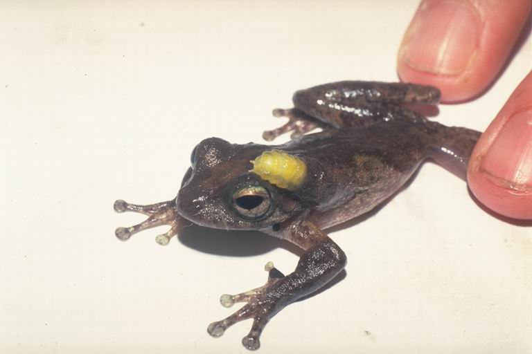 date of photo 2002 location Australia notes The yellow parasite near the head of the frog is a parasitic fly larvae (JM Hero) - it´s a Batrachomyia species sensu Dr Martin Hauser